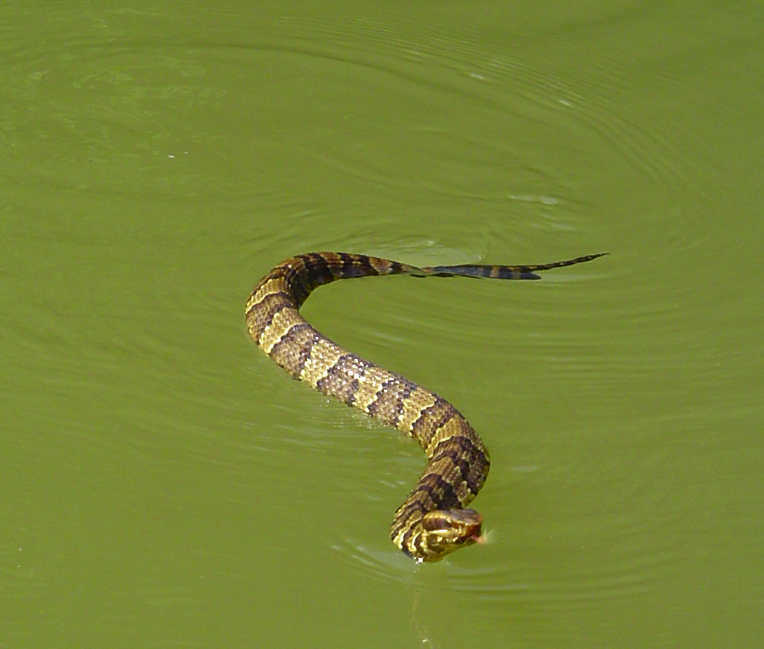 This is a watersnake on the Harpeth river outside Nashville, Tennessee. Potentially a cottonmouth (Agkistrodon piscivorus)